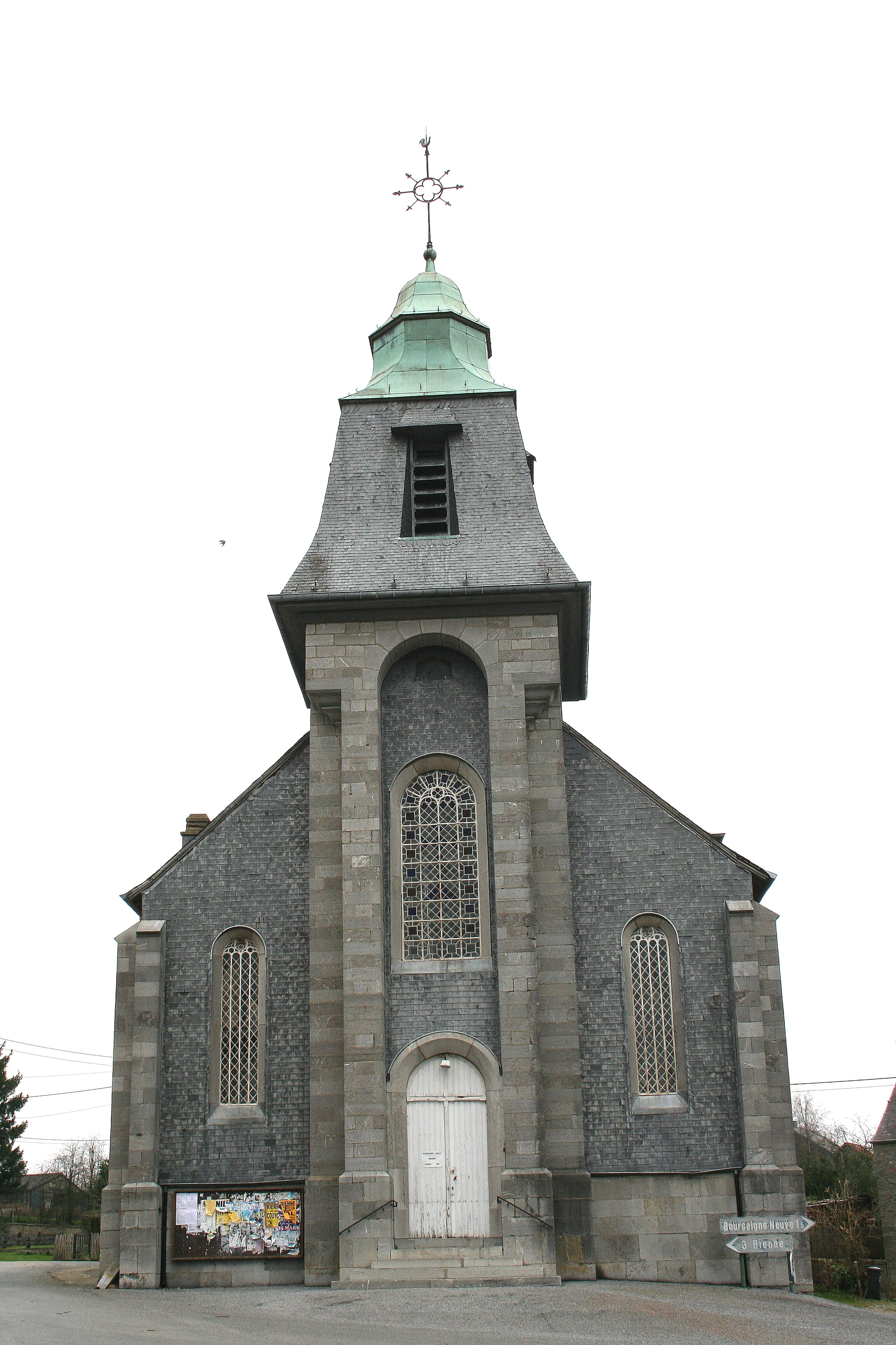 Bourseigne-vieille (Belgium), the St. Peter church (1868).